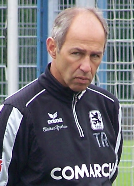 Reiner Maurer, TSV 1860 München, Training Grünwalder Straße